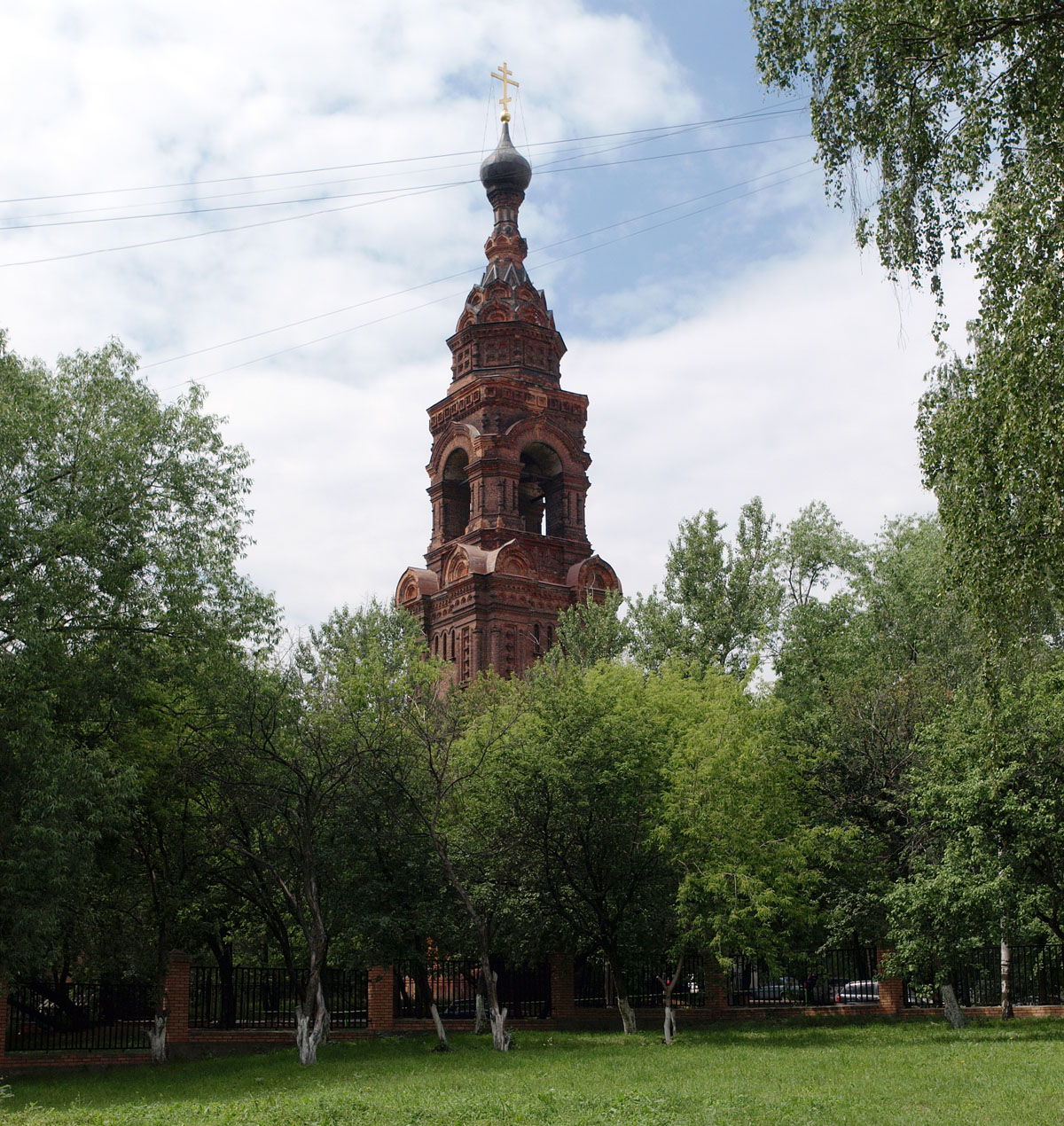 Belltower of defunct Kazansky Golovinsky convent in Moscow - the only remaining building - is completely enclosed in residential highrise and trees. Architect: Alexander Latkov, 1859-1949. The belltower was a standalone structure, not connected to the cathedral.